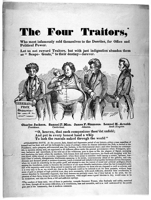 Illustrated broadside from the Library of Congress, entitled "The four traitors, who most infamously sold themselves to the Dorrites for office and political power". LOC description: An illustrated broadside reviling four Rhode Island Whigs who broke party ranks to support a popular movement to free imprisoned radical Thomas Wilson Dorr. (On the Dorr Rebellion see also "Trouble in the Spartan Ranks, Tyrants Prostrate Liberty Triumphant," and "The Great Political Car and Last Load of Patriots," nos. 1843-6, 1844-19, and 1845-5.) The broadside's author alleges political opportunism in the alliance of (left to right) Charles Jackson, Samuel F. Man, James F. Simmons, and Lemuel H. Arnold with Democrats to support a "liberation" ticket in the spring elections of 1845. This notice, evidently published after the April canvass, laments the election of "an obscure individual like [President James K.] Polk" and "a pompous, self-conceited man like [Gov. Charles] Jackson" as well as "Foreigners, ignorant, barbarous and uncivilized," "radicals, disorganisers, and abolitionists assuming to be jurists" in general. The author exhorts the reader, "Let us not reward Traitors, but with just indignation abandon them as 'Scape-Goats,' to their destiny--forever." The "Four Traitors" are crudely caricatured. Jackson holds a proclamation of liberation, probably the act of June 1845 pardoning Dorr. Samuel Man is depicted as obese, sitting in a chair and holding an infant. Simmons thumbs his nose at Man, and his own coattails are in turn held by Lemuel Arnold. A verse appears below them: O, heaven that such companions thou'dst unfold; / And put in every honest hand a whip / To lash the rascals naked through the world.